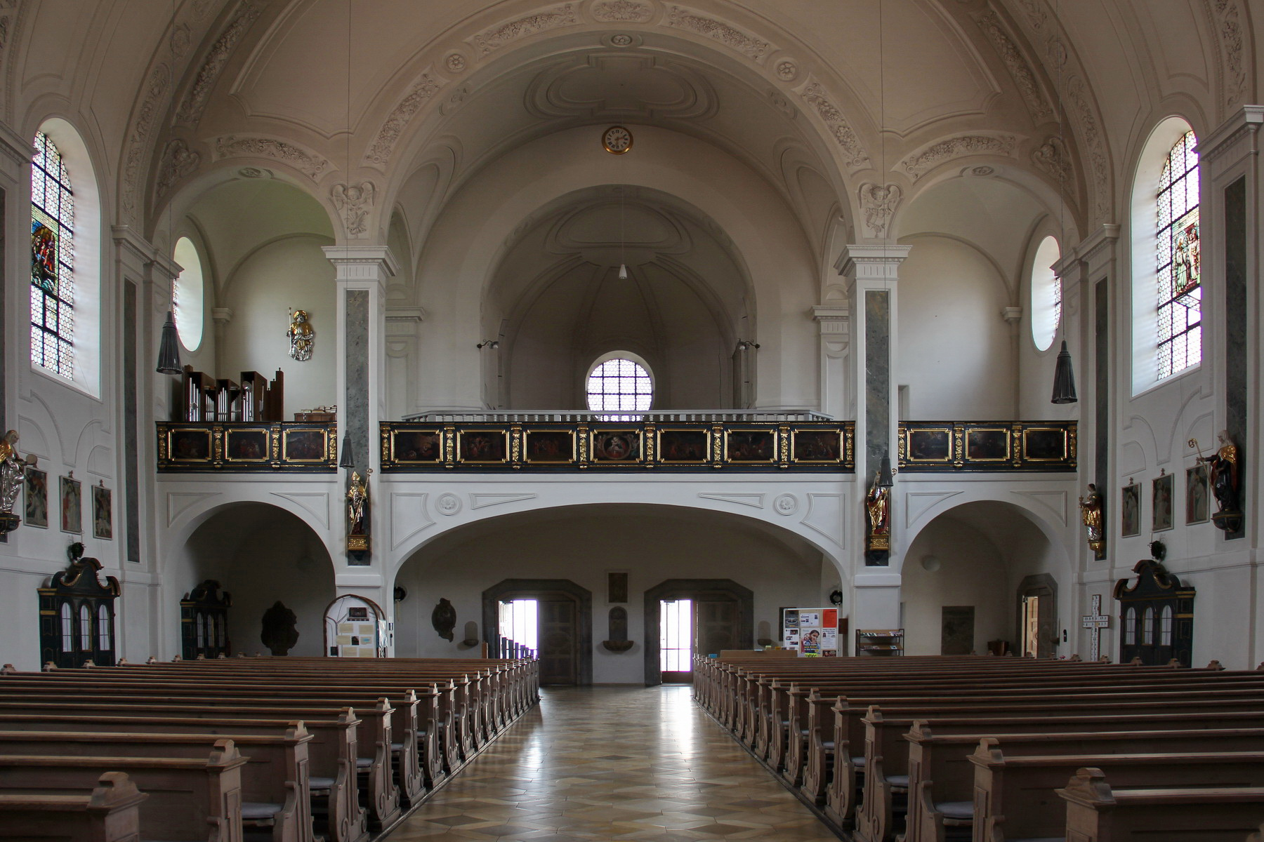 Saint Walburga Native nameSt. WalburgaLocationBeilngries, Upper Bavaria, GermanyCoordinates49° 02′ 05.64″ N, 11° 28′ 23.52″ E Authority control : Q2083220 institution QS:P195,Q2083220